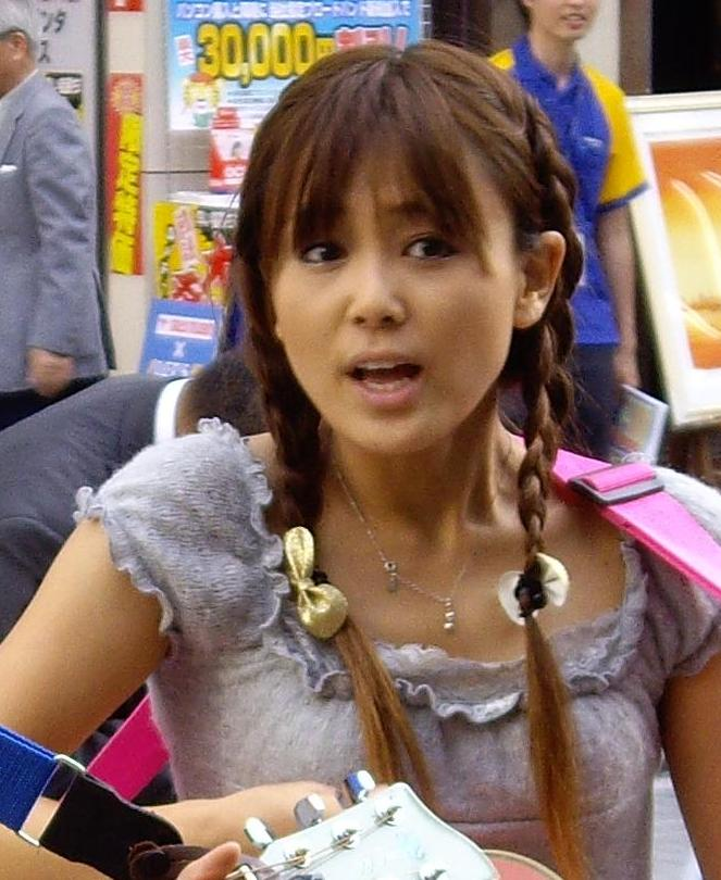 Picture of Nagisa Abe performing in Akihabara. Author: Danirubioperez License: Slightly modified by: Yaki-gaijin (talk) 12:47, 21 December 2008 (UTC)